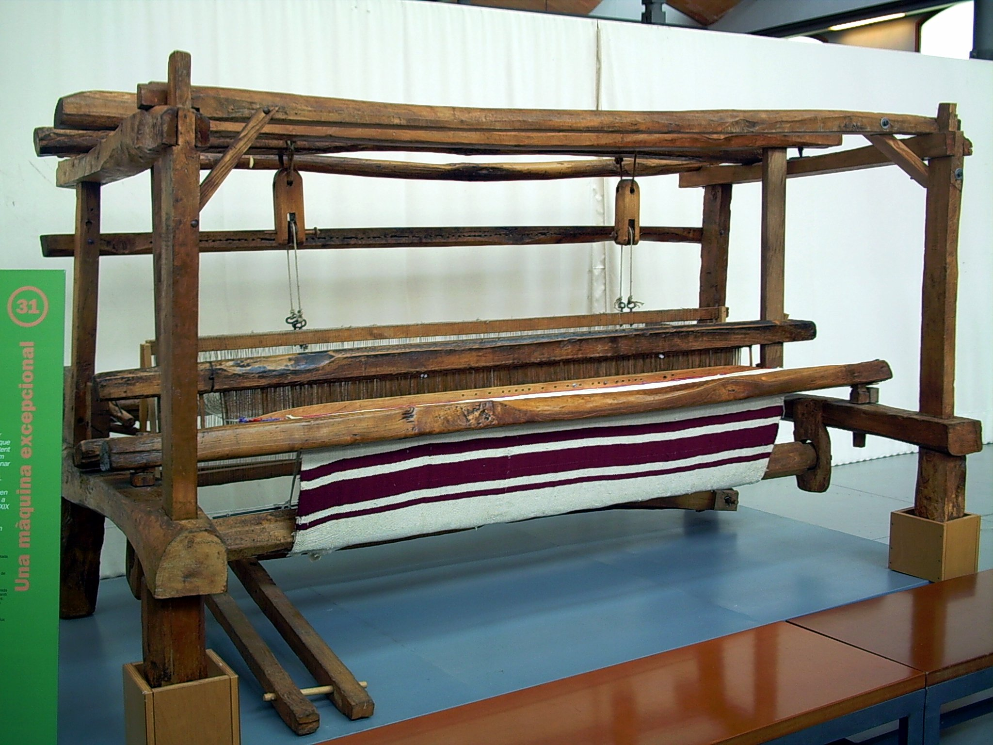 Hand loom, at the mNATECT, Terrassa, (Catalunya).